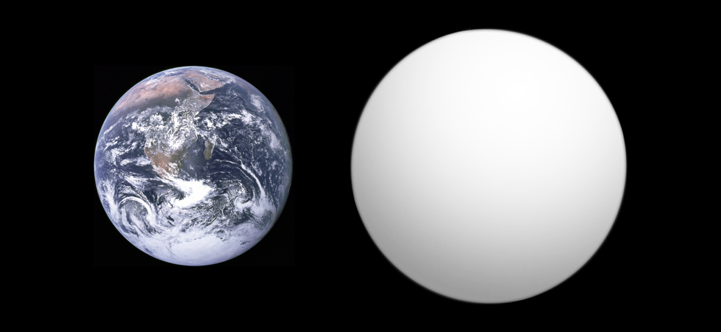 Comparison of best-fit size of the exoplanet Kepler-10 b with the Solar System planet Earth, as reported in the Extrasolar Planets Encyclopaedia[1] as of 2010-10-03. ↑ Extrasolar Planets Encyclopaedia (2010-09-30). Retrieved on 2010-10-03.